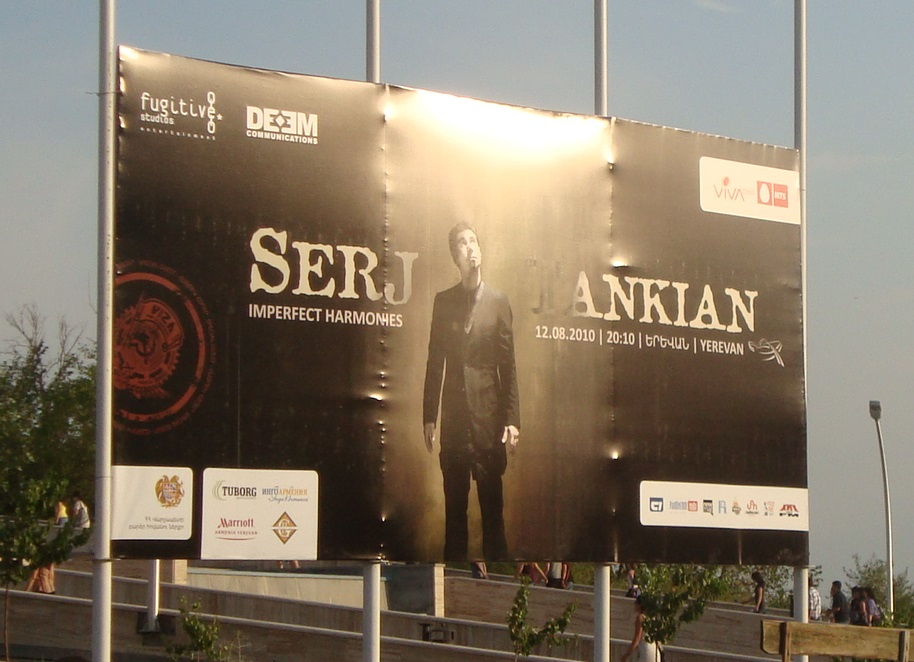 Serj Tankyan's concert at Karen Demirchyan Complex.